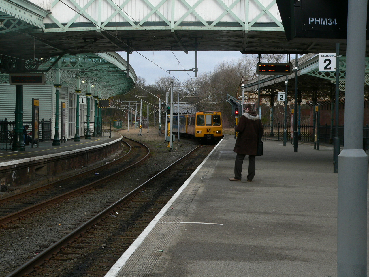 A Tyne and Wear Metro train (number 4067) for St James arrives at platform 2 at Tynemouth station.